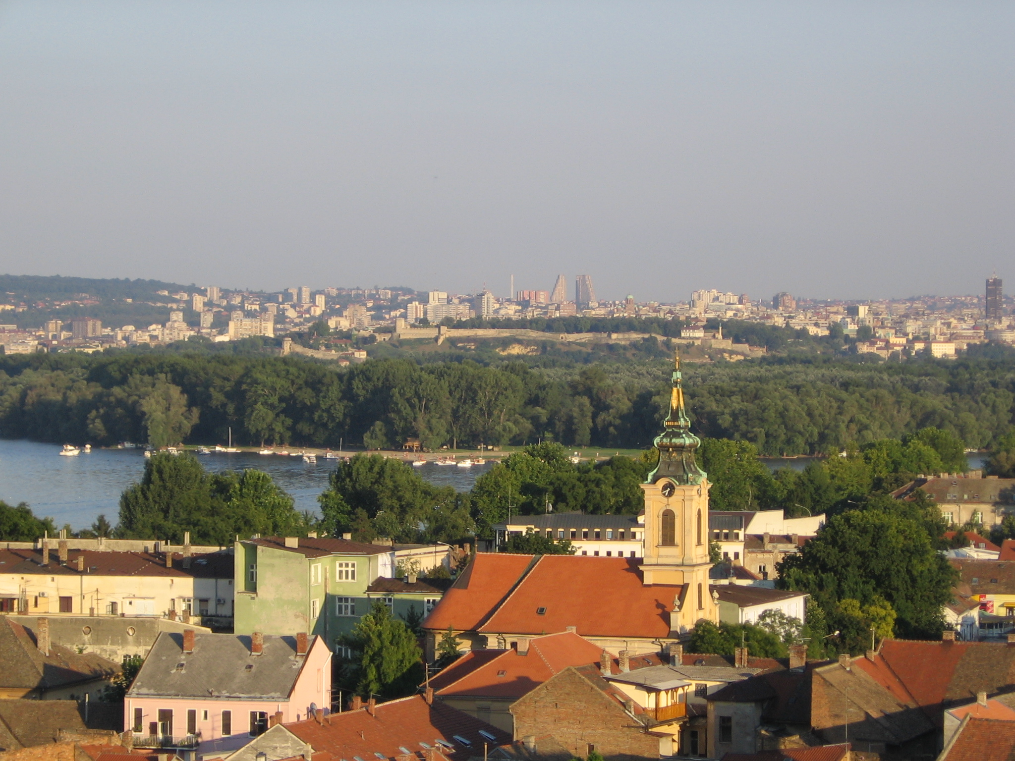 Serbia; View of Belgrade from Zemun (Hungarian Zimony, German Semlin) over Sava River.